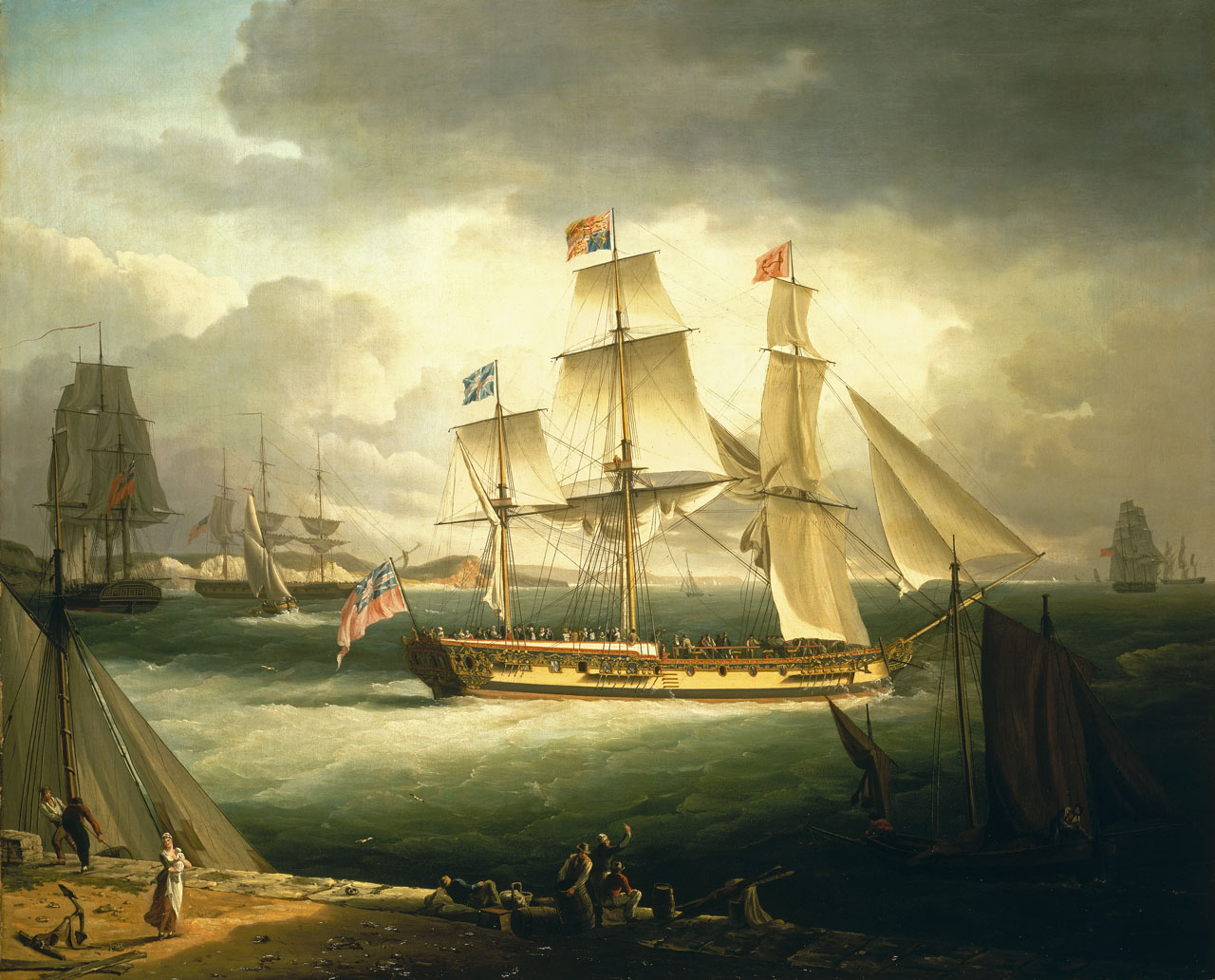 A royal yacht is shown in starboard-broadside view, hove-to off a harbour believed to be Weymouth, with King George III and members of his family on board. It is flying the Royal Standard and the Union flag together with the fouled anchor, thus signifying the presence of the sovereign on board.